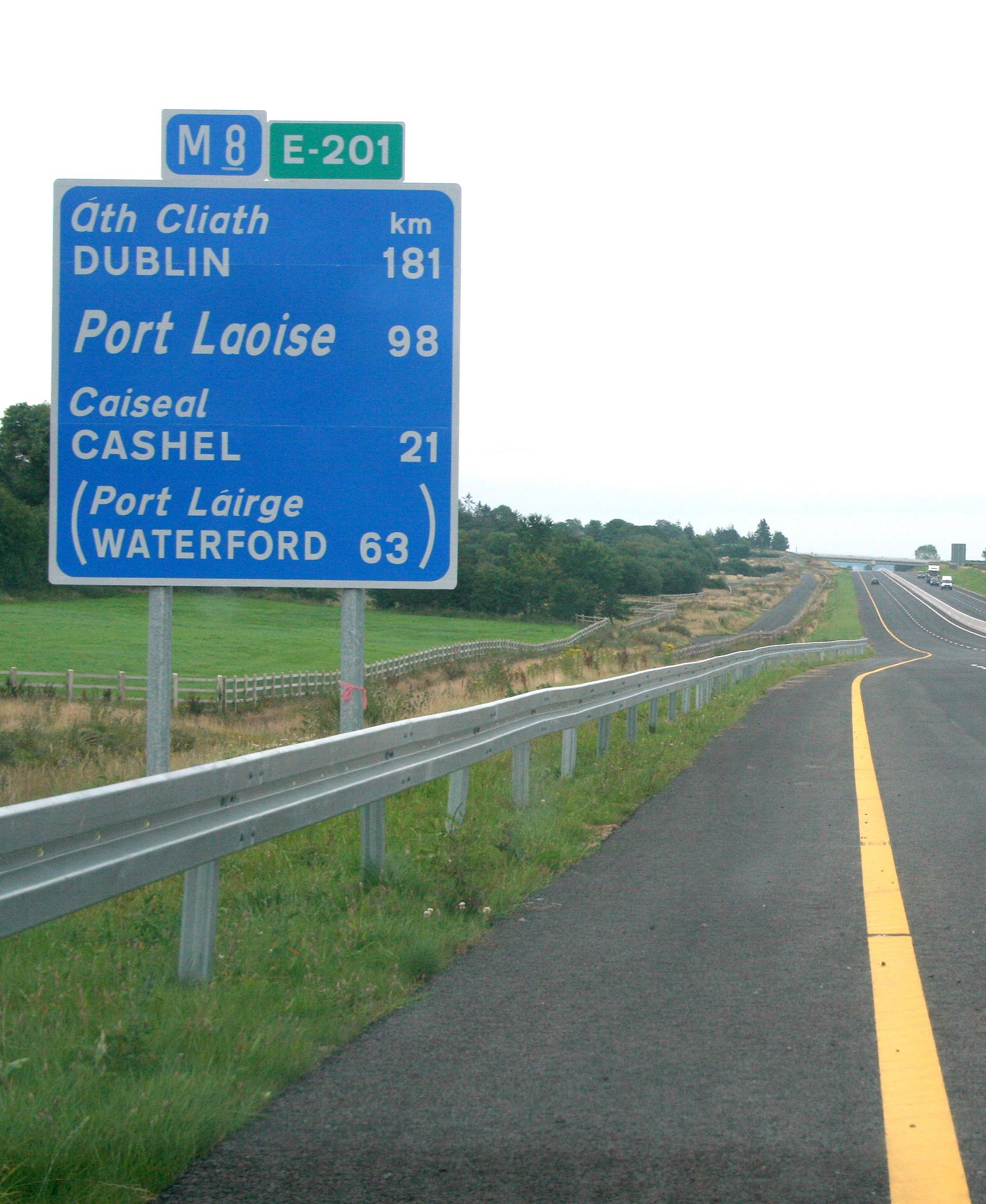 The newly opened M8 through County Tipperary, Ireland